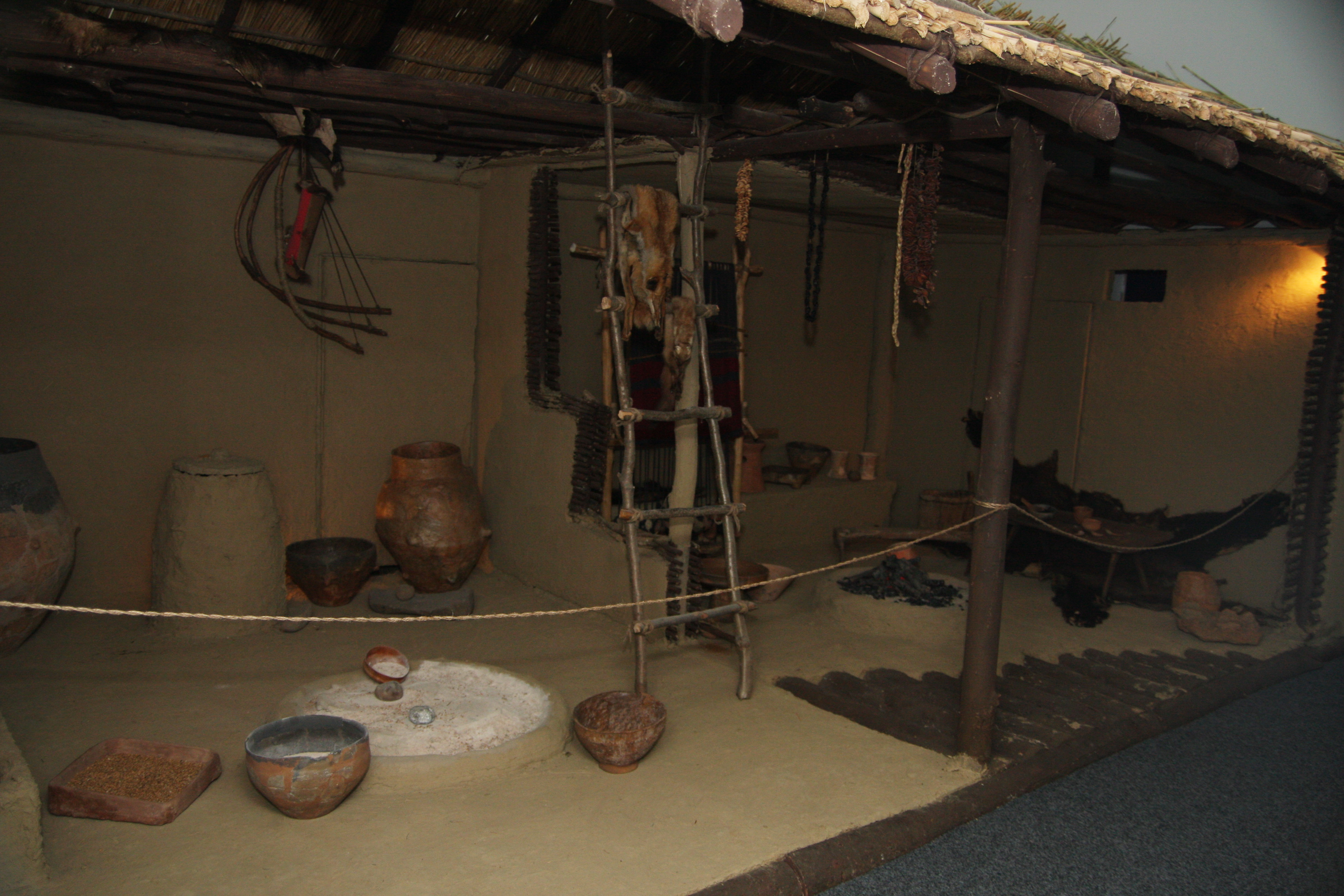 Interior of a Cucuteni House, Reconstruction in Piatra Neamt Museum